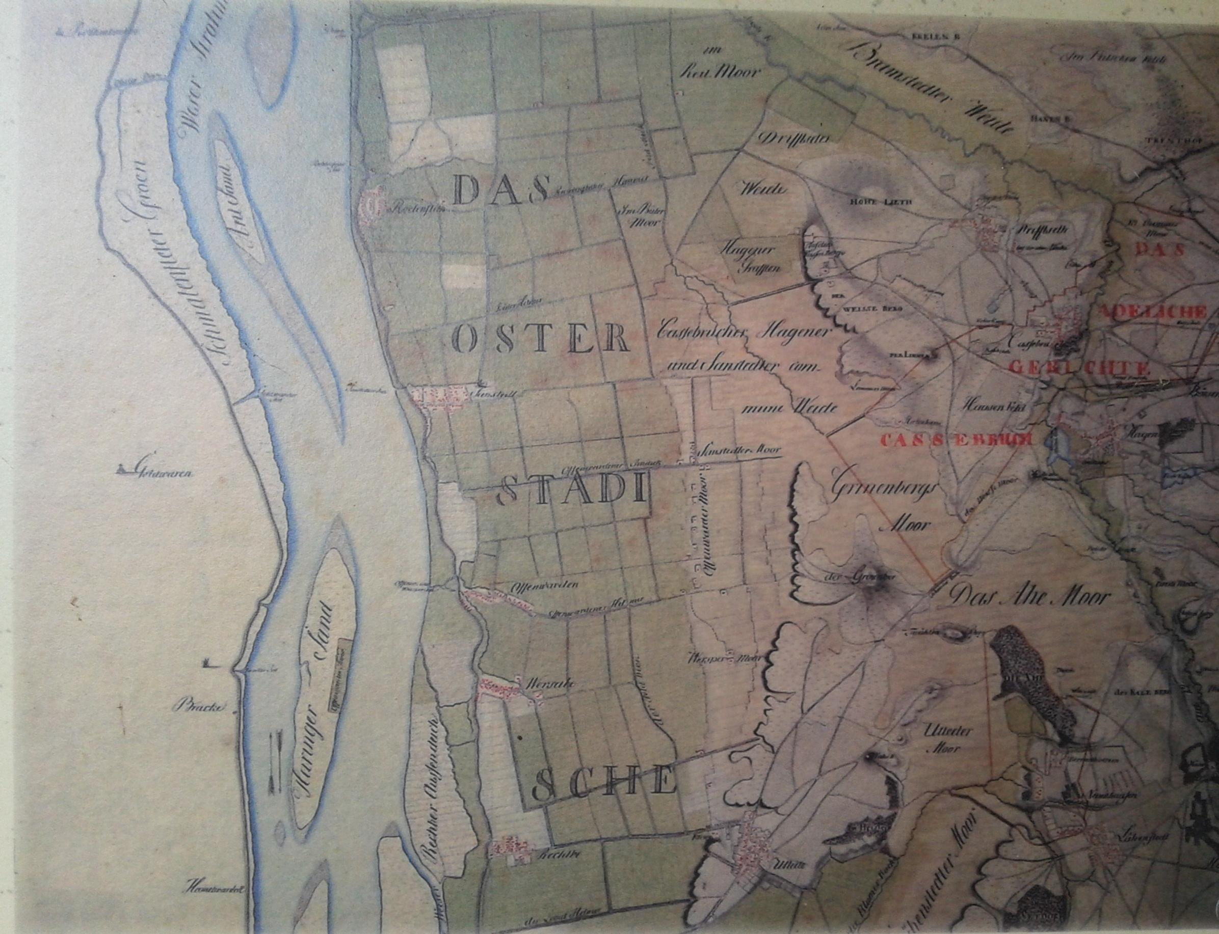 18th century map of the east bank of the River Weser north of Breme